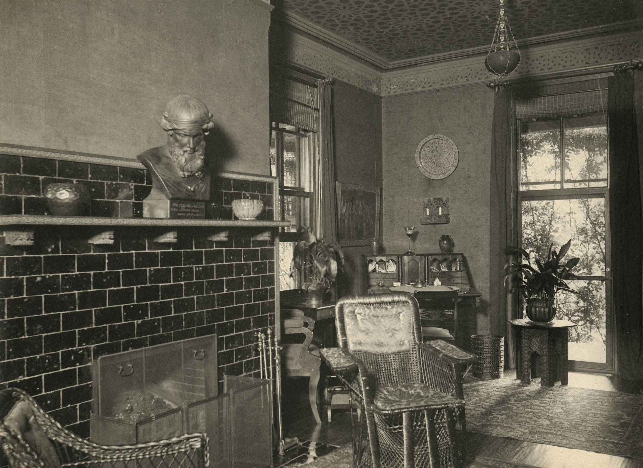 The Deanery, Interior View, Mamie Gwinn's "small study" is pictured with Lockwood de Forest stenciling on the ceiling and walls, Bryn Mawr College.